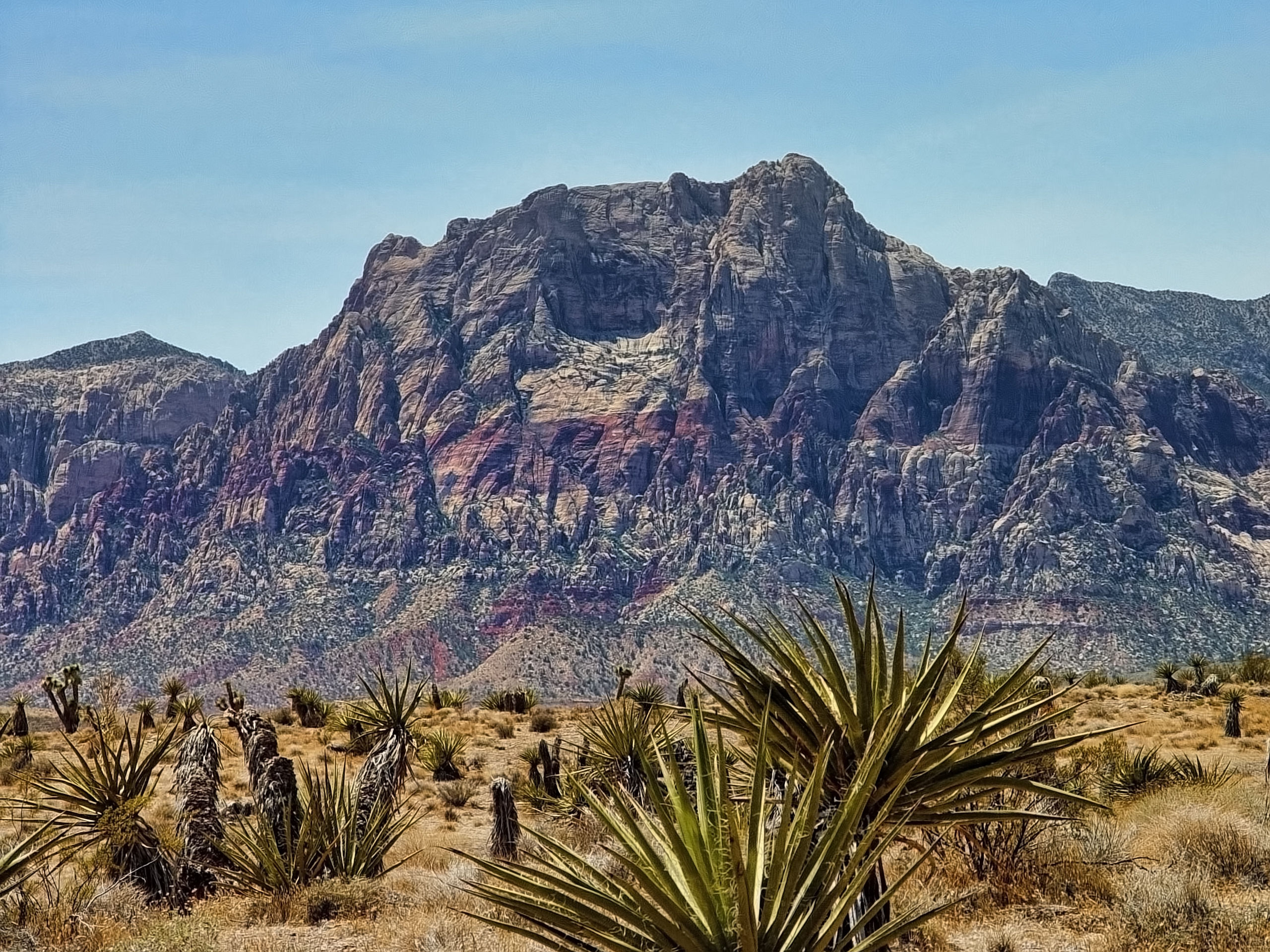 in Red Rock Canyon. the photo does not do it justice. it was really dominant